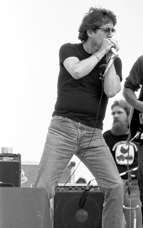 Paul Butterfield at Woodstock Reunion, Parr Meadows, Ridge, NY